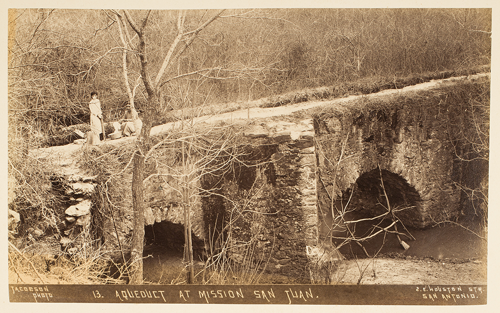 Title: Aqueduct at Mission San Juan. Creator: Jacobson, Mary E. Date: ca. 1892 Part Of: of views of Arizona, New Mexico and the southwest, 1892 Place: San Antonio, Bexar County, Texas Physical Description: 1 photographic print: 11 x 18 cm. on 27 x 34 cm. mount File: vault_ag1982_0122x_30a_sm_opt.jpg Rights: Please cite DeGolyer Library, Southern Methodist University when using this file. A high-resolution version of this file may be obtained for a fee. For details see the web page. For other information, . For more information, View Texas: Photographs, Manuscripts, and Imprints